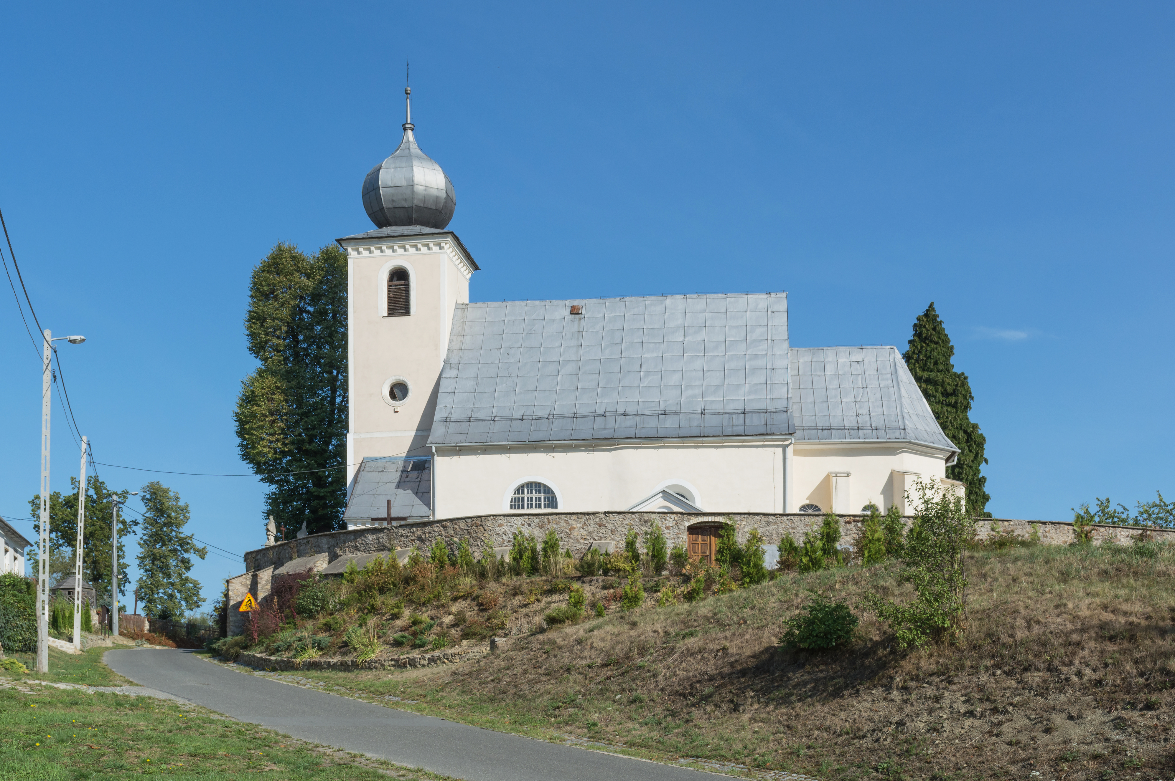 Saint Nicholas church in Starków